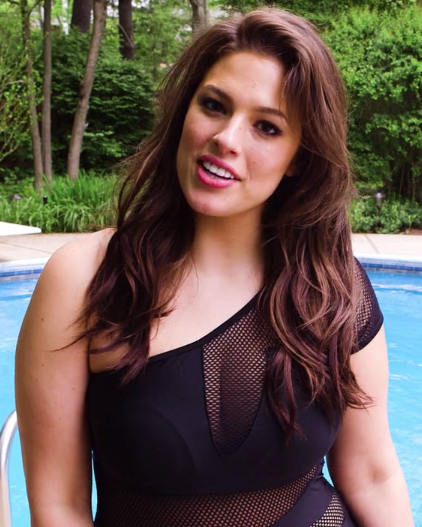 Ashley Graham on How to Find The Perfect Swimsuit